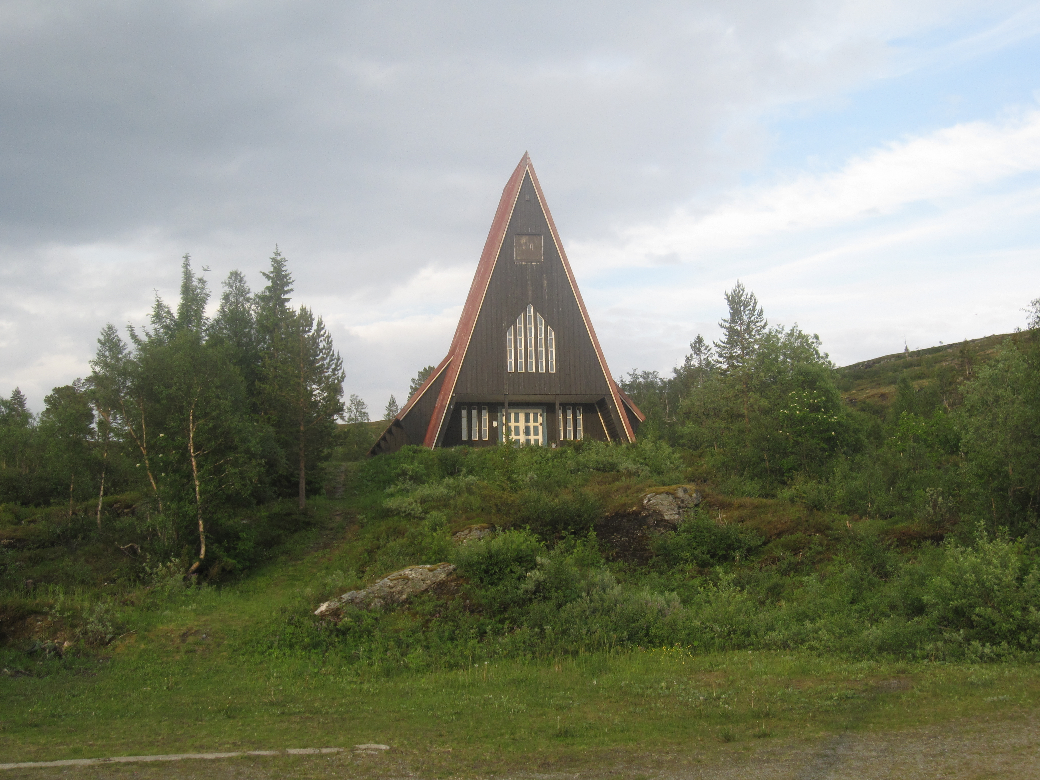 The Skorovas Chapel, located at the eastern edge of the small Skorovas community, was a gift from the mining company Elkem. Built in 1965, this wooden church has a capacity of 170 persons. This chapel was the cause of some controversy because it was built on land belonging to the Røyrvik municipality, while the rest of Skorovas was in Namsskogan. Because of that, the border between Røyrvik and Namsskogan was actually moved a little eastward so that the chapel is now properly located in the same municipality as Skorovas!